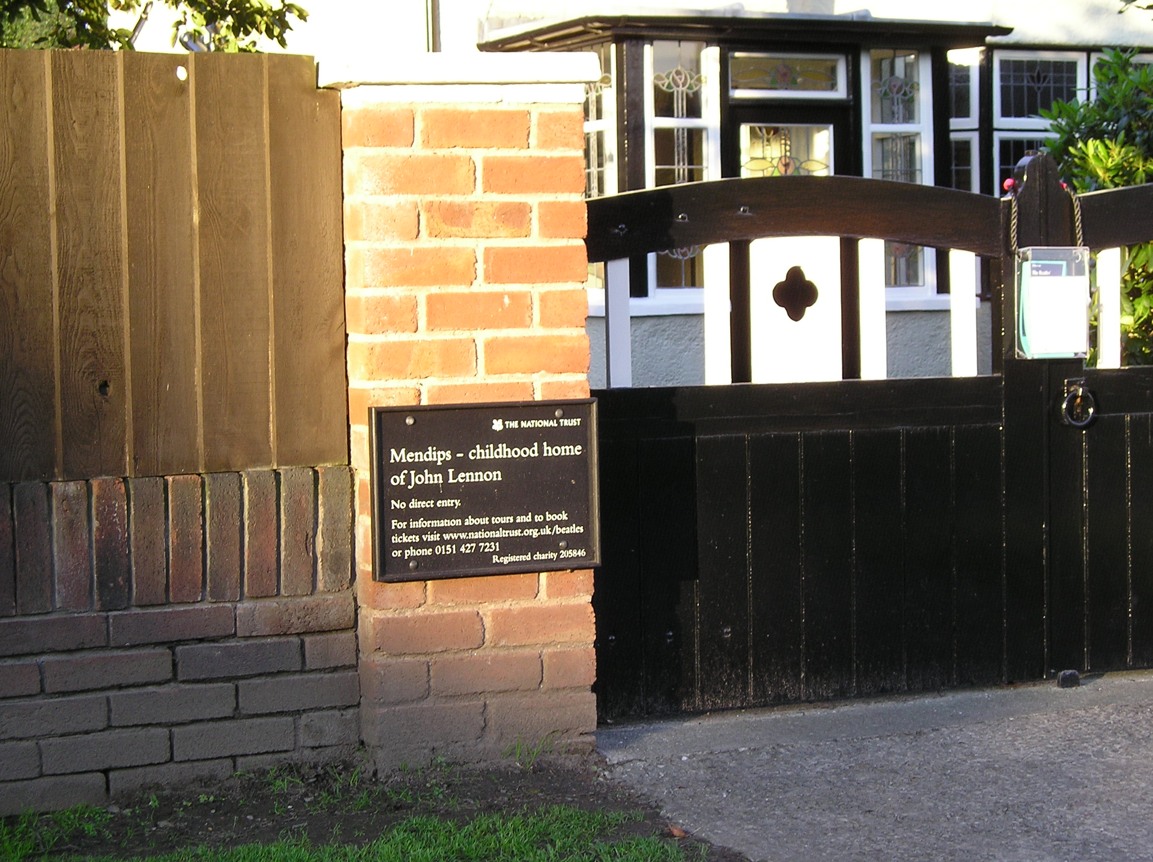 251 Menlove Avenue, Liverpool L18, named "Mendips", was the childhood home of John Lennon.